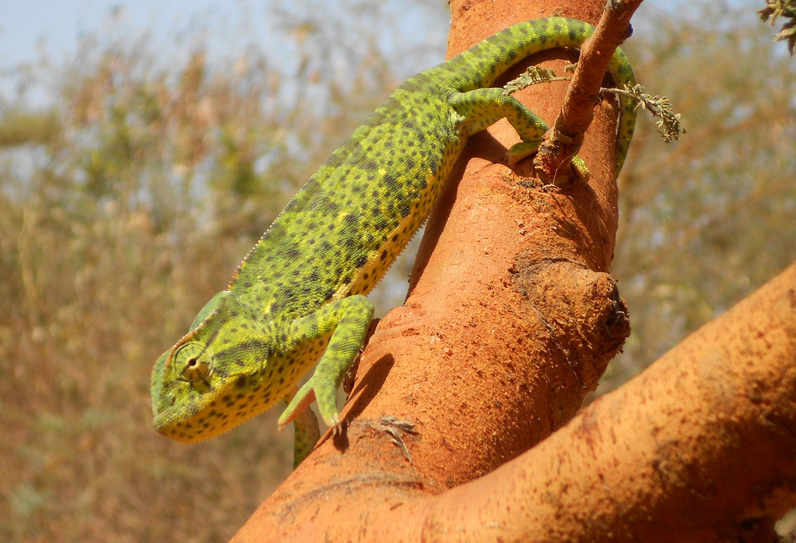 Chamaeleo senegalensis on Acacia seyal at the Beer-Sheba project near Sandiara, Senegal.